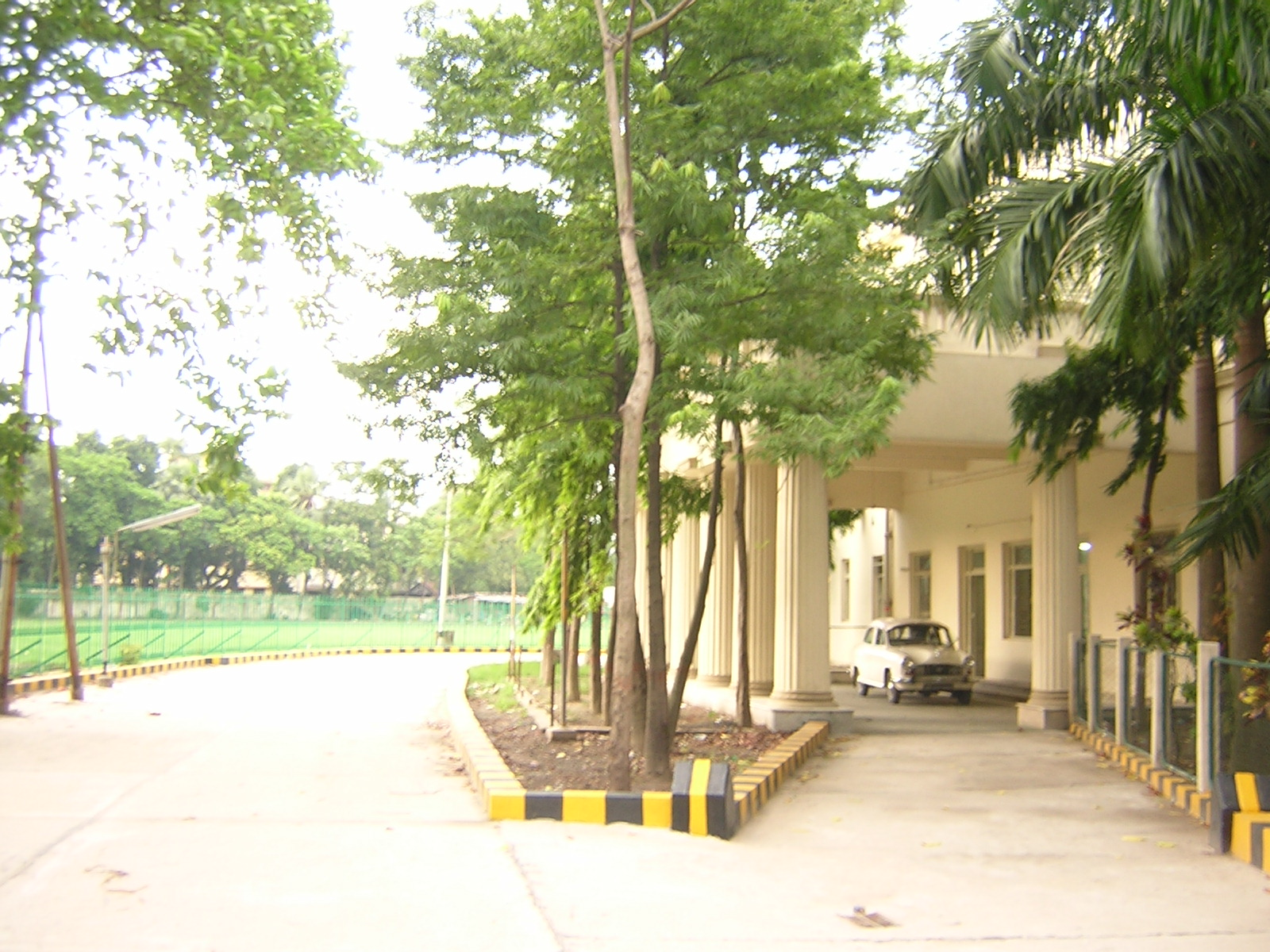 I took this picture of rabindrabharati uiversity main administritive building gate